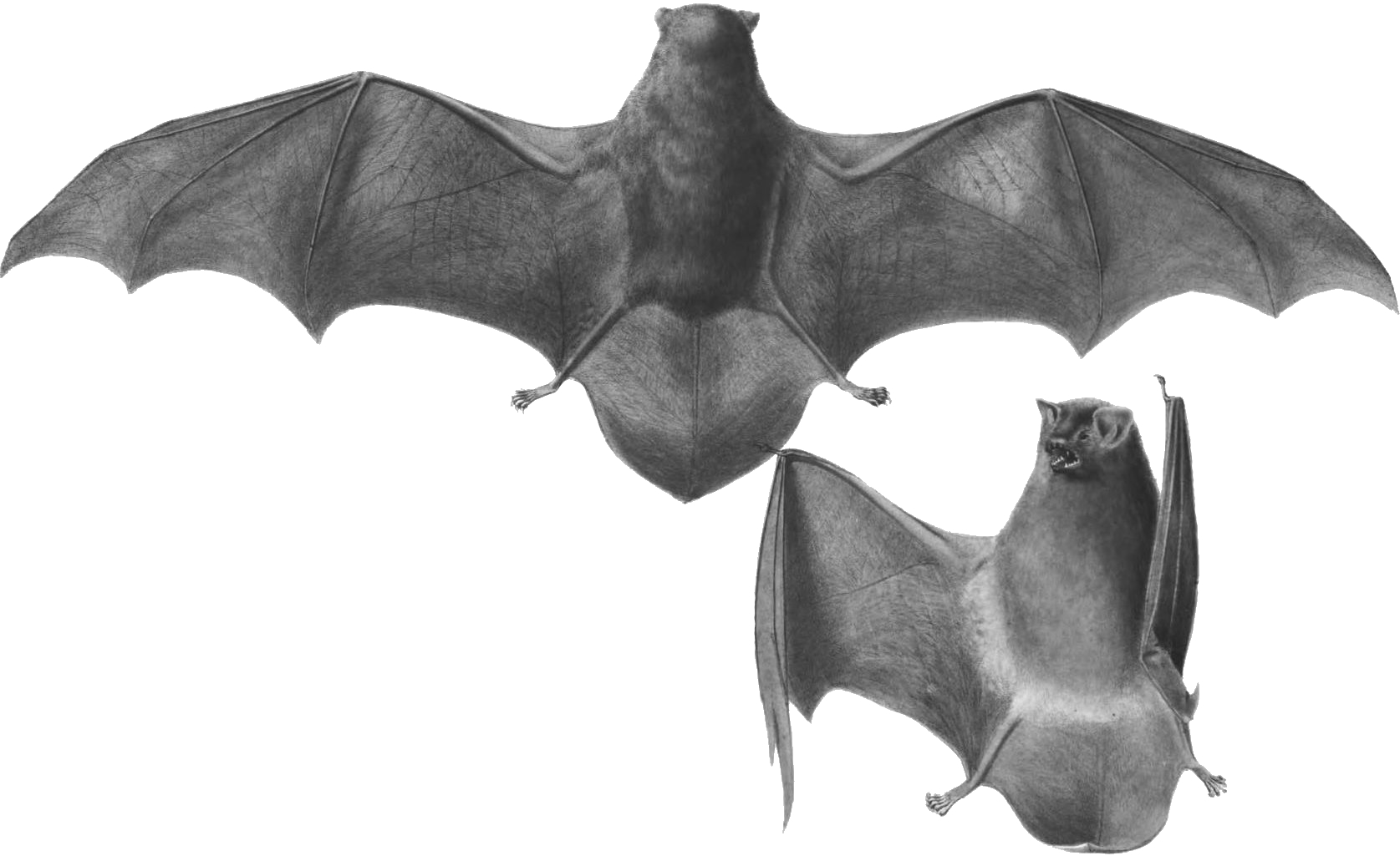 An illustration of the bat species Miniopterus schreibersii dasythrix